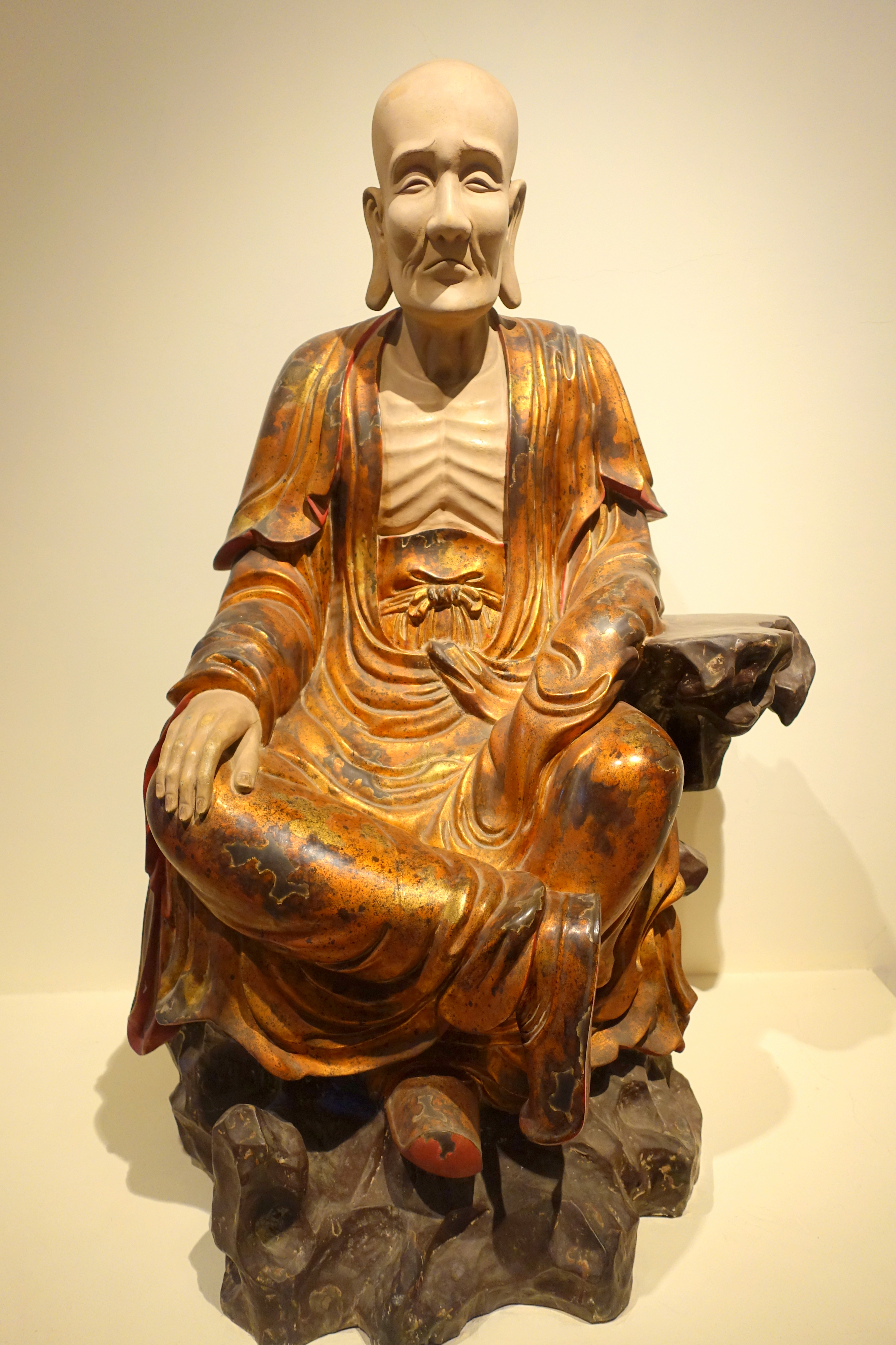 Exhibit in the Vietnam National Museum of Fine Arts - Hanoi, Vietnam. This artwork is old enough so that it is in the public domain.